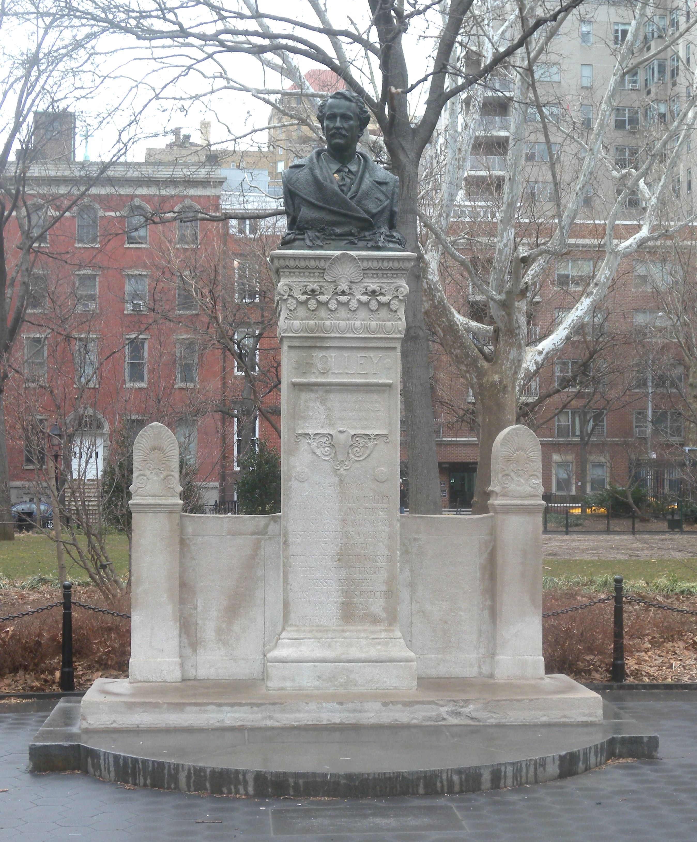 Looking north at Holley monument on a cloudy morning.